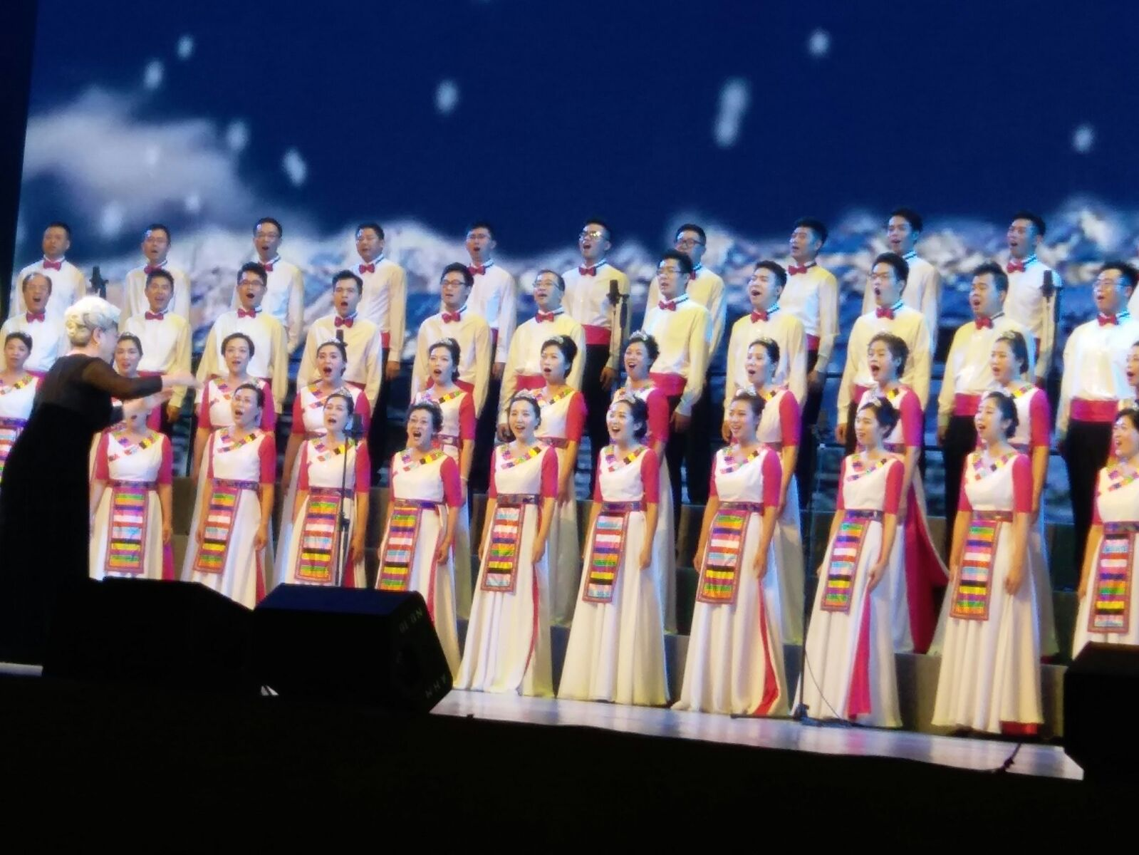 文藝匯演 singing show presentation Hong Kong Coliseum in June 2017